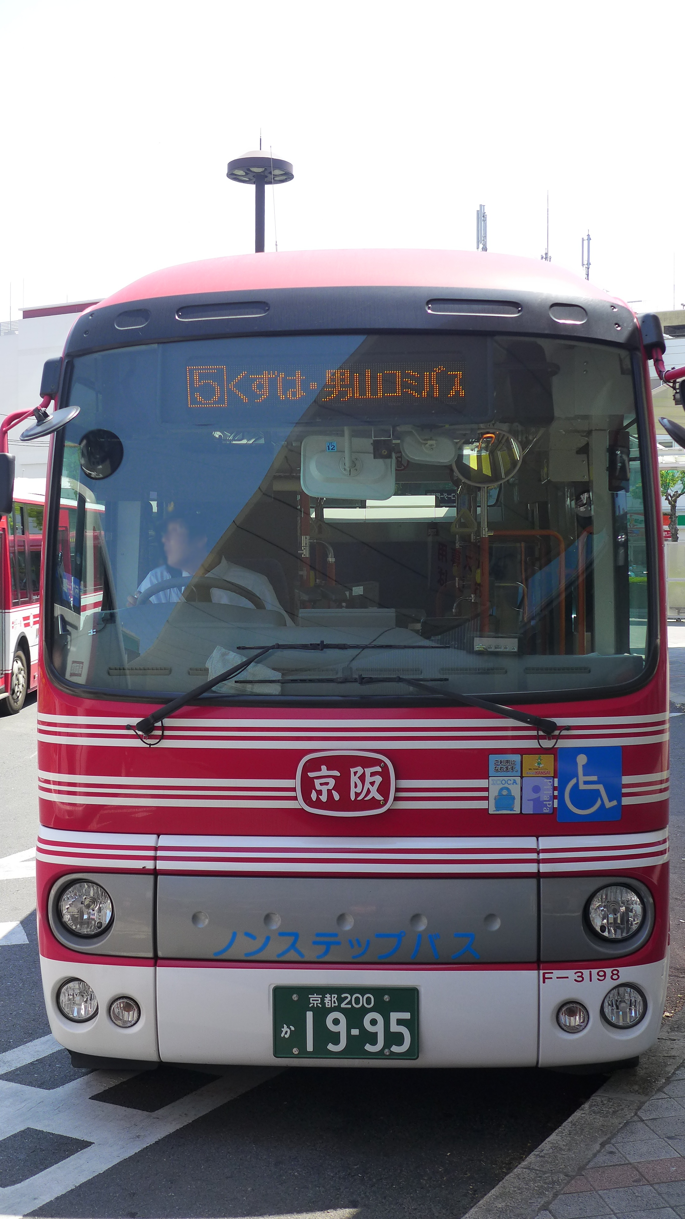 Hino Poncho BDG-HX6JLAE fro Keihan Bus Otokoyama Depot assigned to Kuzuha-Otokoyama Community Bus Otokoyama Route 5, at Kuzuha Station